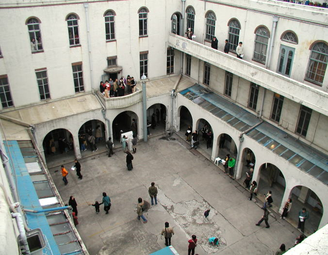 Shokuryo Building in Koto Ward, Tokyo, Japan